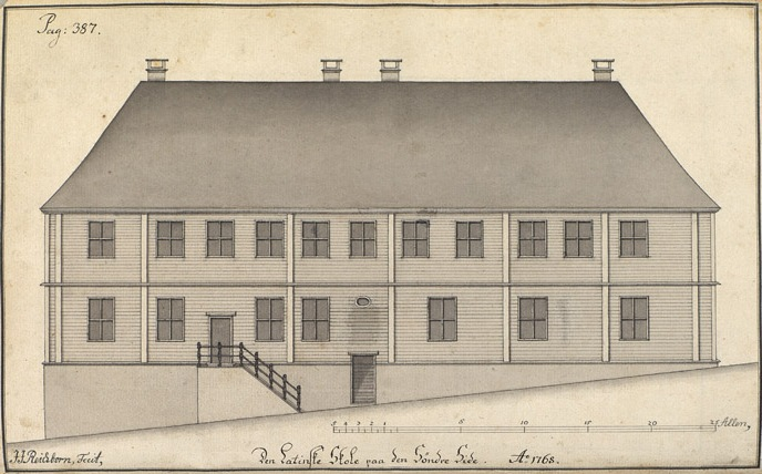 Drawing by J.J. Reichborn. From Hildebrant Meyers manuskripter, 1764.